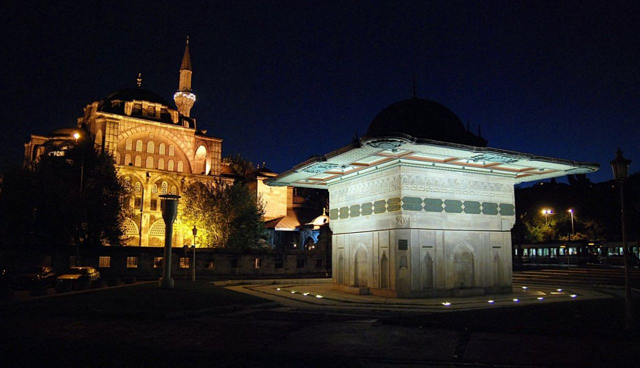 Kılıç Ali Pasha Mosque and Tophane Fountain at night, Istanbul, Turkey